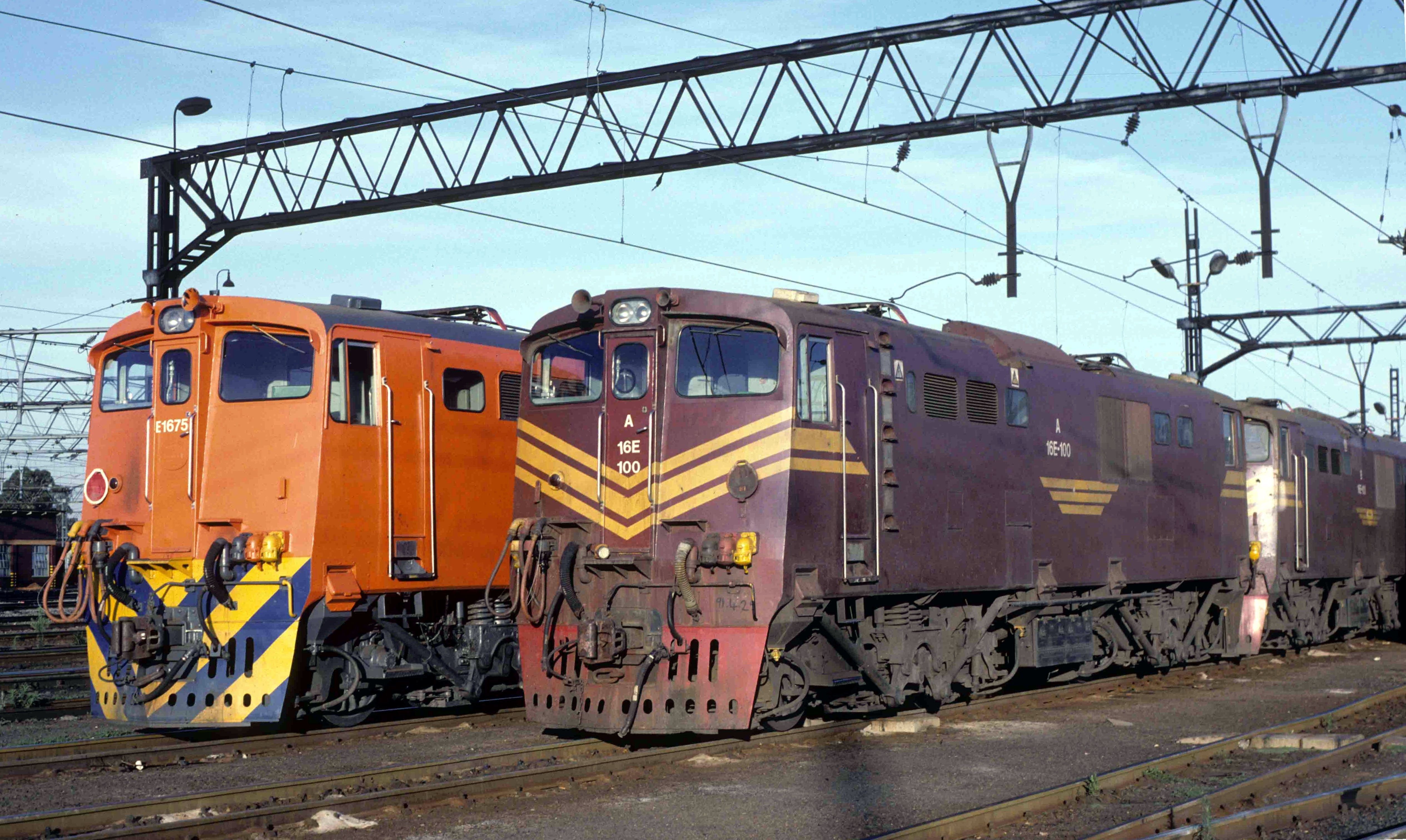 Class 6E1 Series 2 E1272 as Class 16E 16-100A, semi-permanently coupled to E1273 as Class 16E 16-100BLocation: Germiston